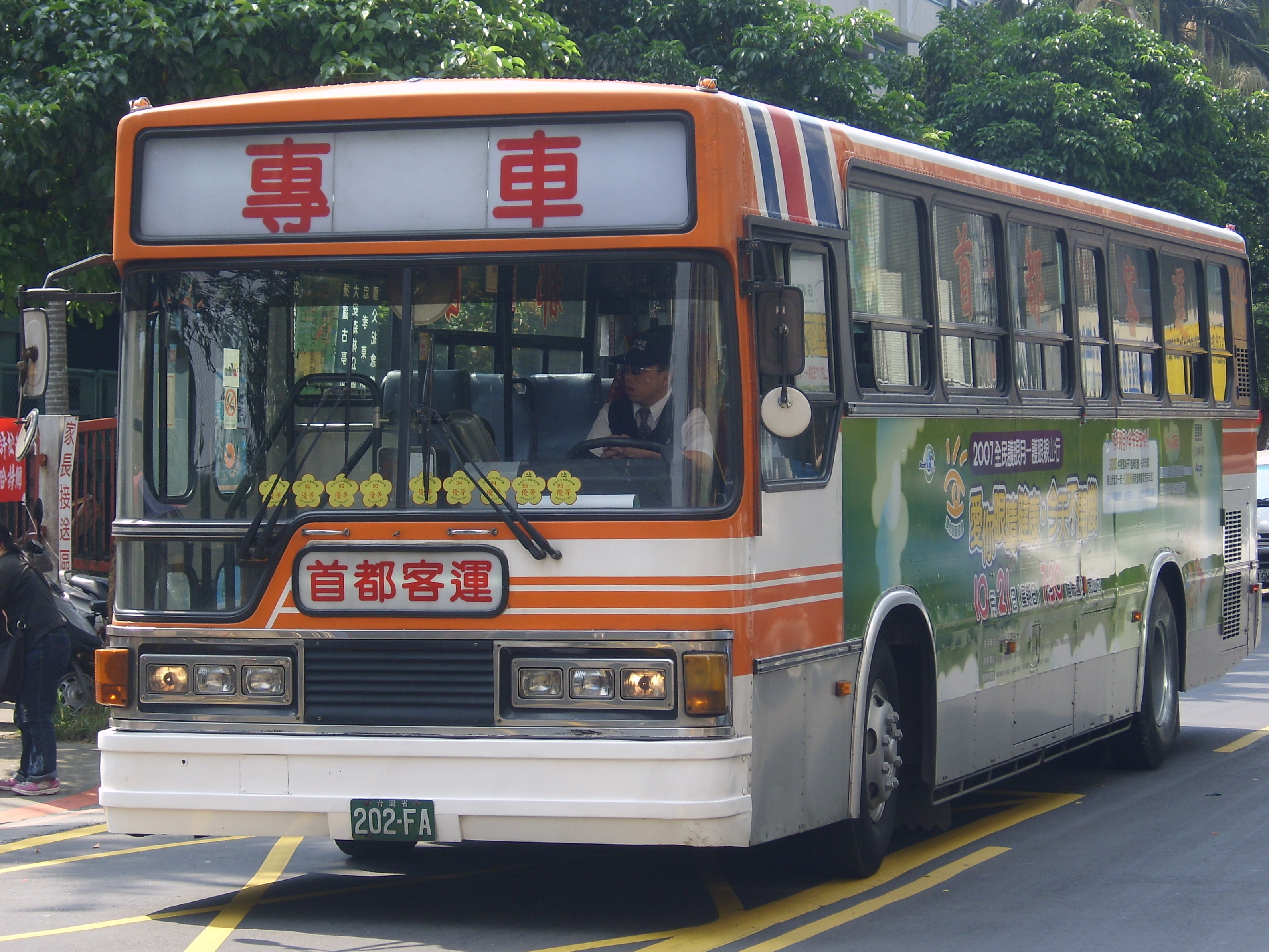 Shuttle Bus of 2007 Alcon Taiwan Hiking.